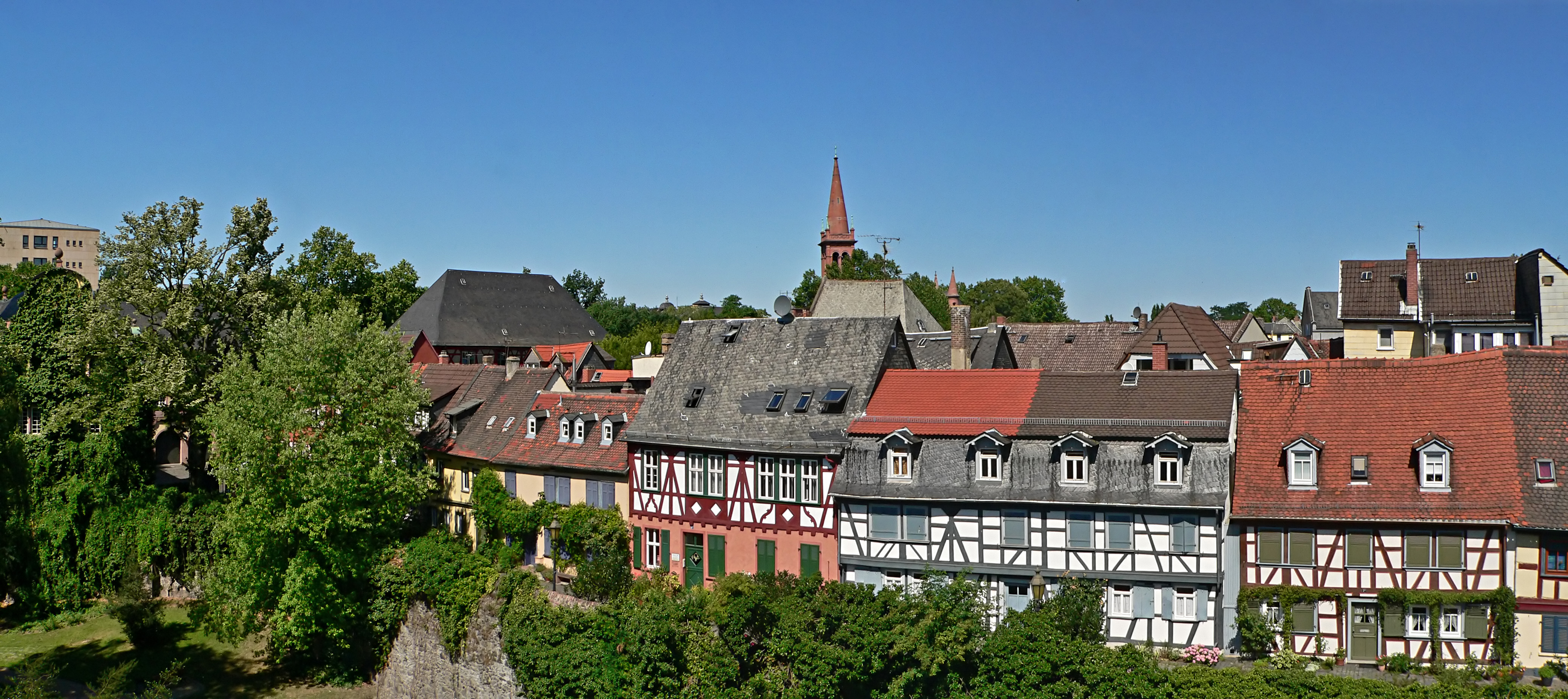 View from Höchst Castle of the Burggraben lane with old half-timbered houses